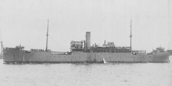 Japanese collier MUROTO off Yokosuka Naval Base.